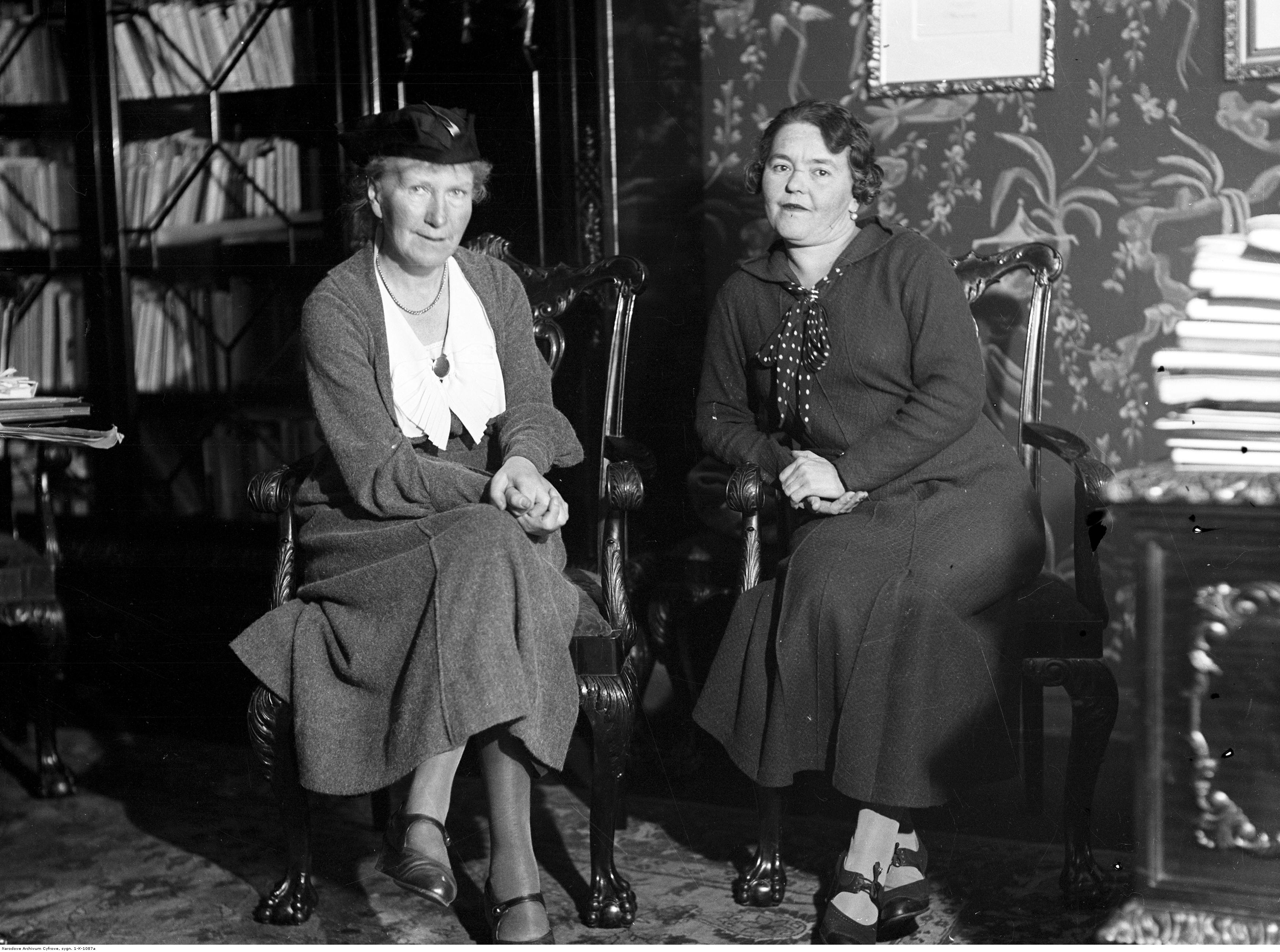 A visit of the Swiss feminist activist Emilie Gourd at the IKC ("Ilustrowany Kurier Codzienny"} newspaper headquarters in Krakow in Poland. Emilie Gourd (on the left) and the IKC editor Zofia Lewakowska (on the right).